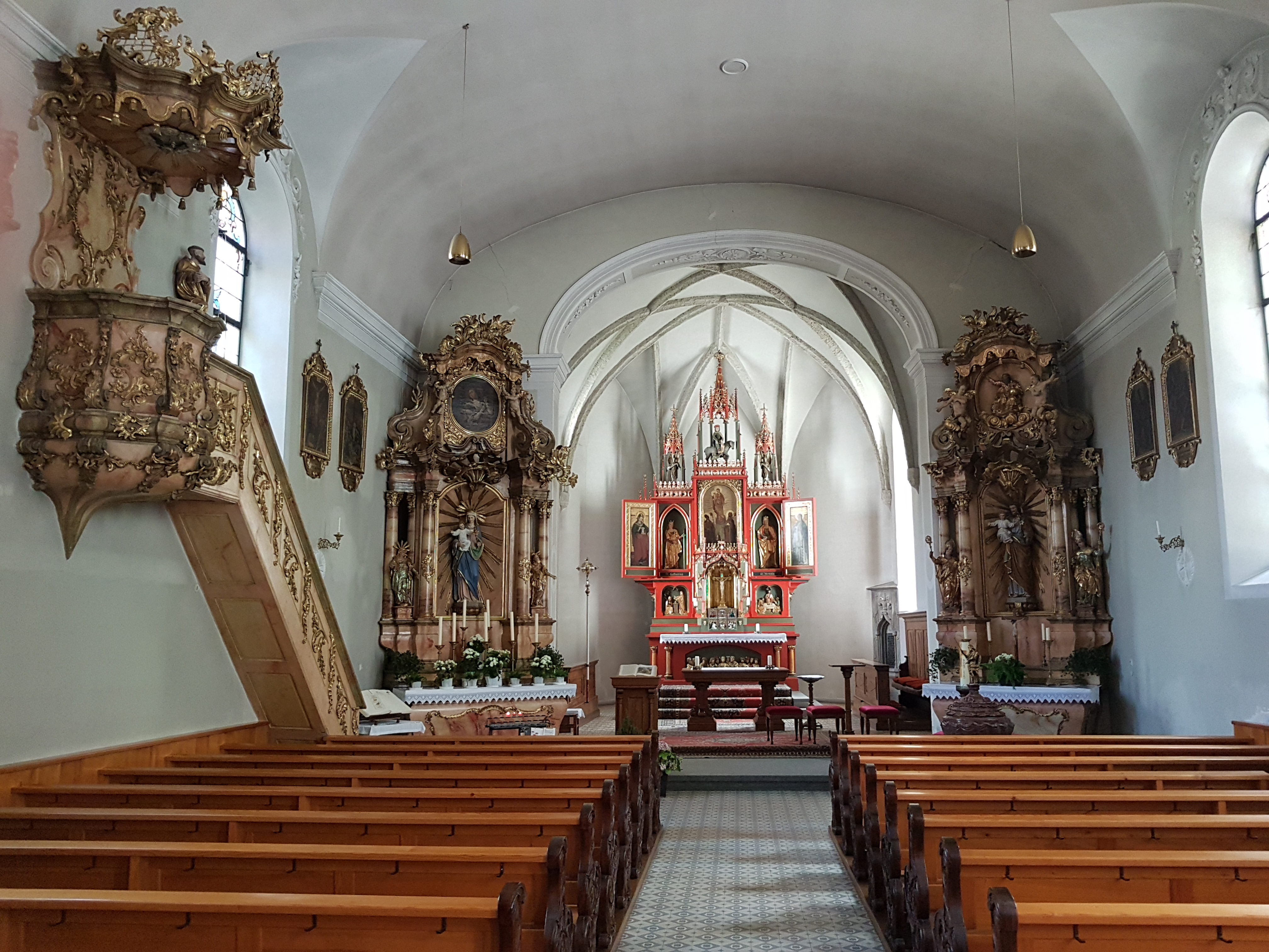 Parish Church Sankt Martin Bürs, Vorarlberg, Austria.